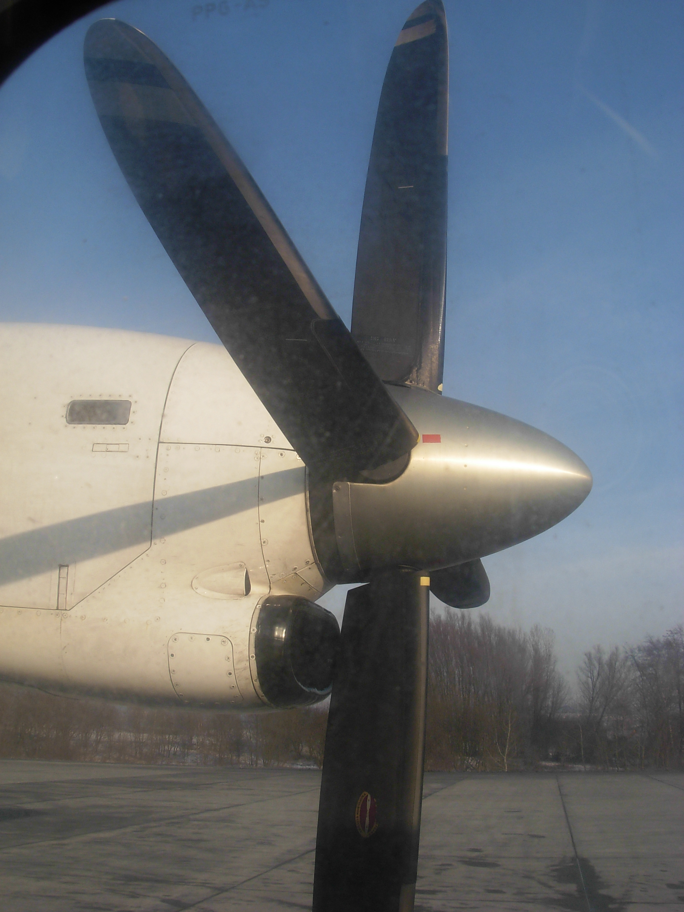 Photos from my flight Kraków-Warsaw in January 2008. ATR ATR-72-202 (SP-LFB)